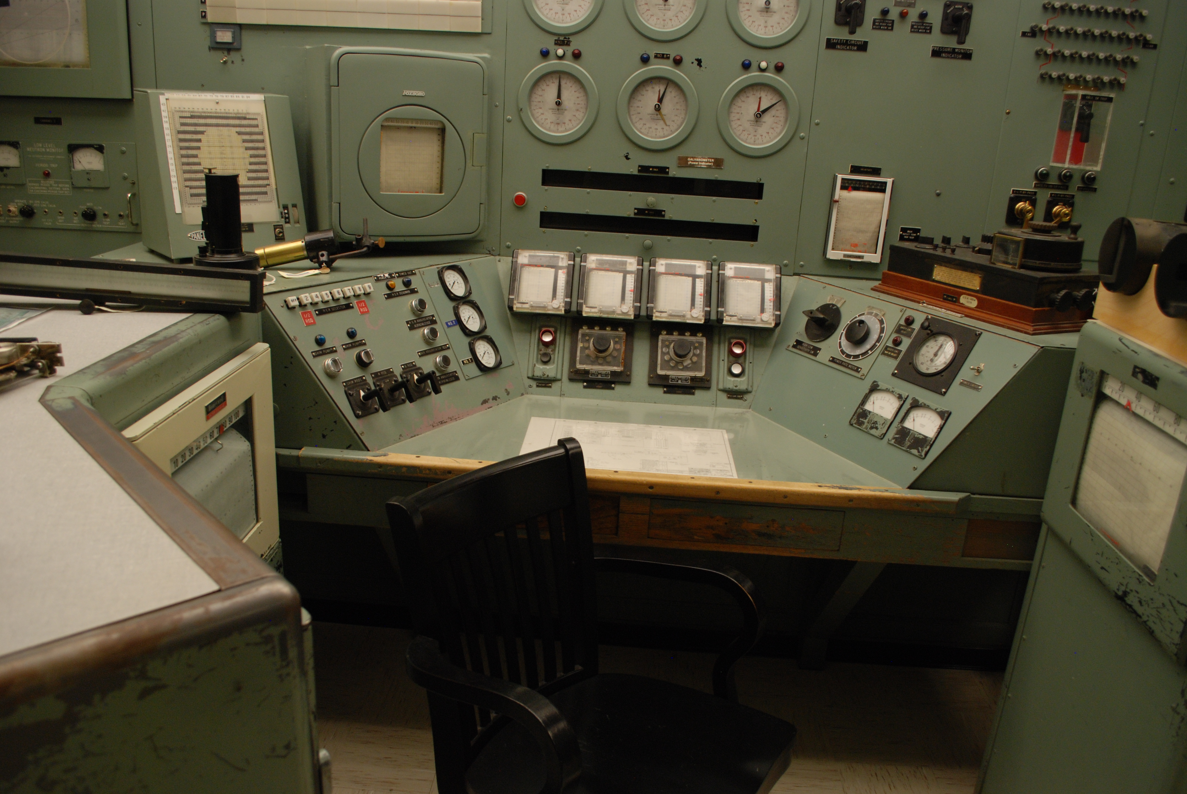 Hanford B Reactor Control Station